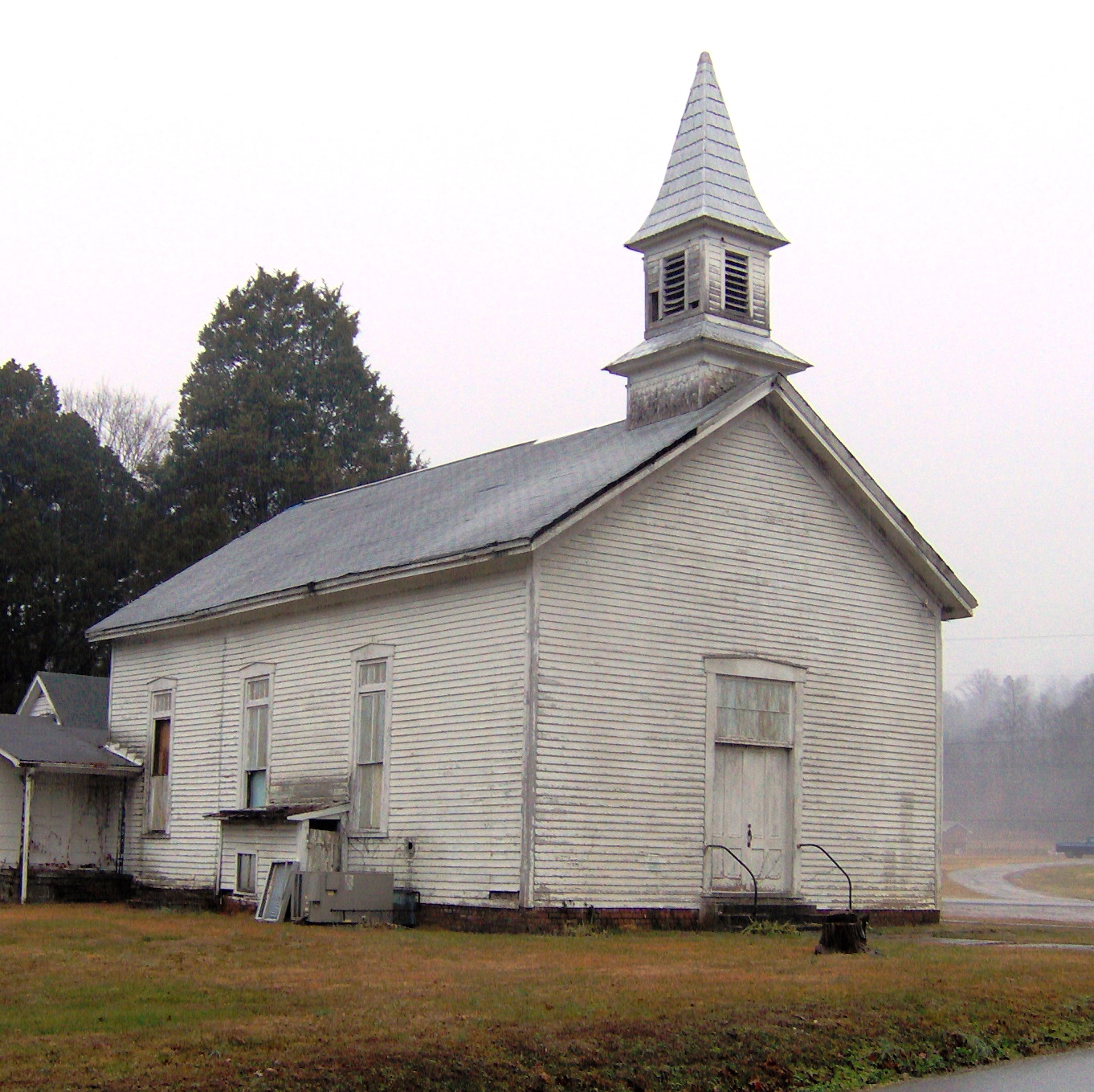 The old Post Oak Springs Christian Church near Rockwood, Tennessee, USA. Founded in 1812, the church is the oldest Restoration Movement congregation in Tennessee. This church was built in 1876. The congregation currently meets in a more modern structure across the street.